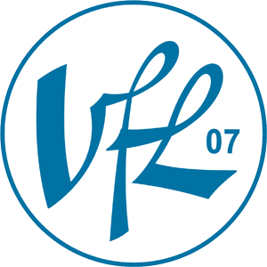 Logo for VfL Neustadt, German football team